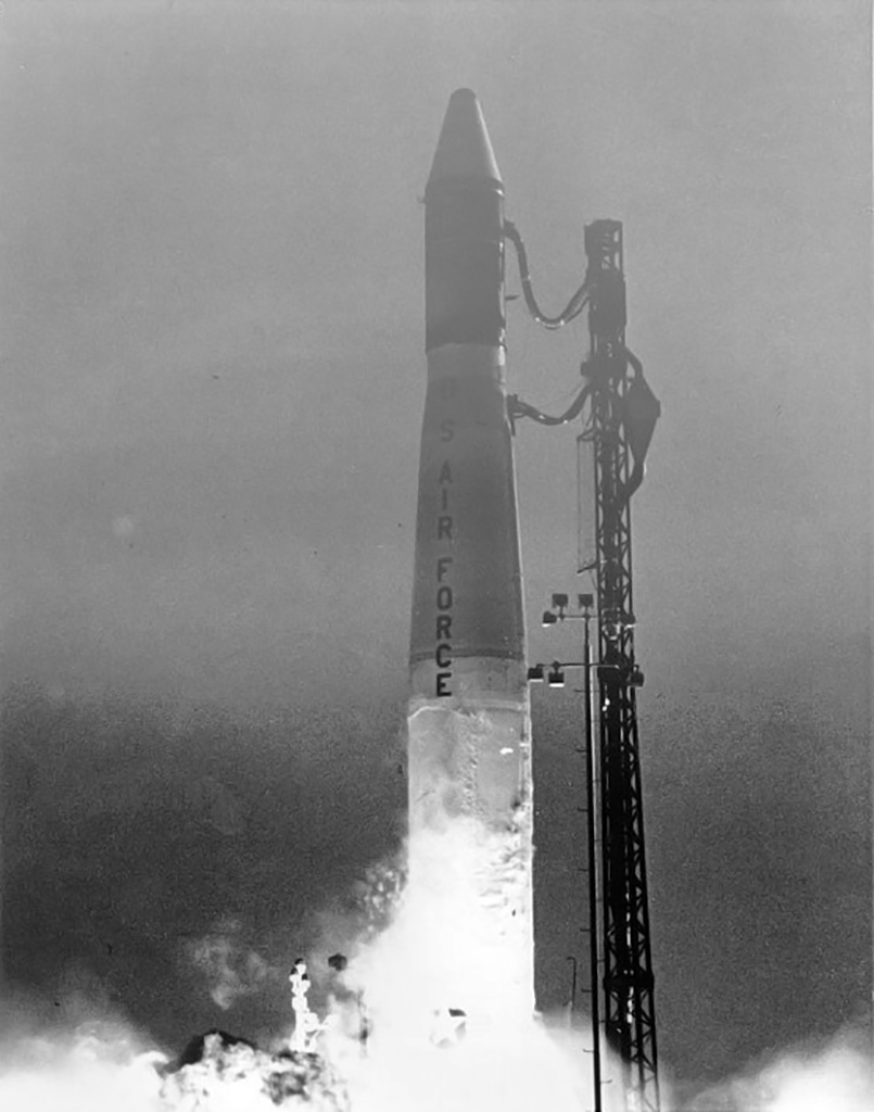 Thor DSV-2U rocket launch with a DMSP-5D-F5 satellite, July 15, 1980, from Vandenberg AFB SCL-10W. The satellite was lost when the second and third stages did not properly disconnect, resulting in flight control wiring being ripped out.